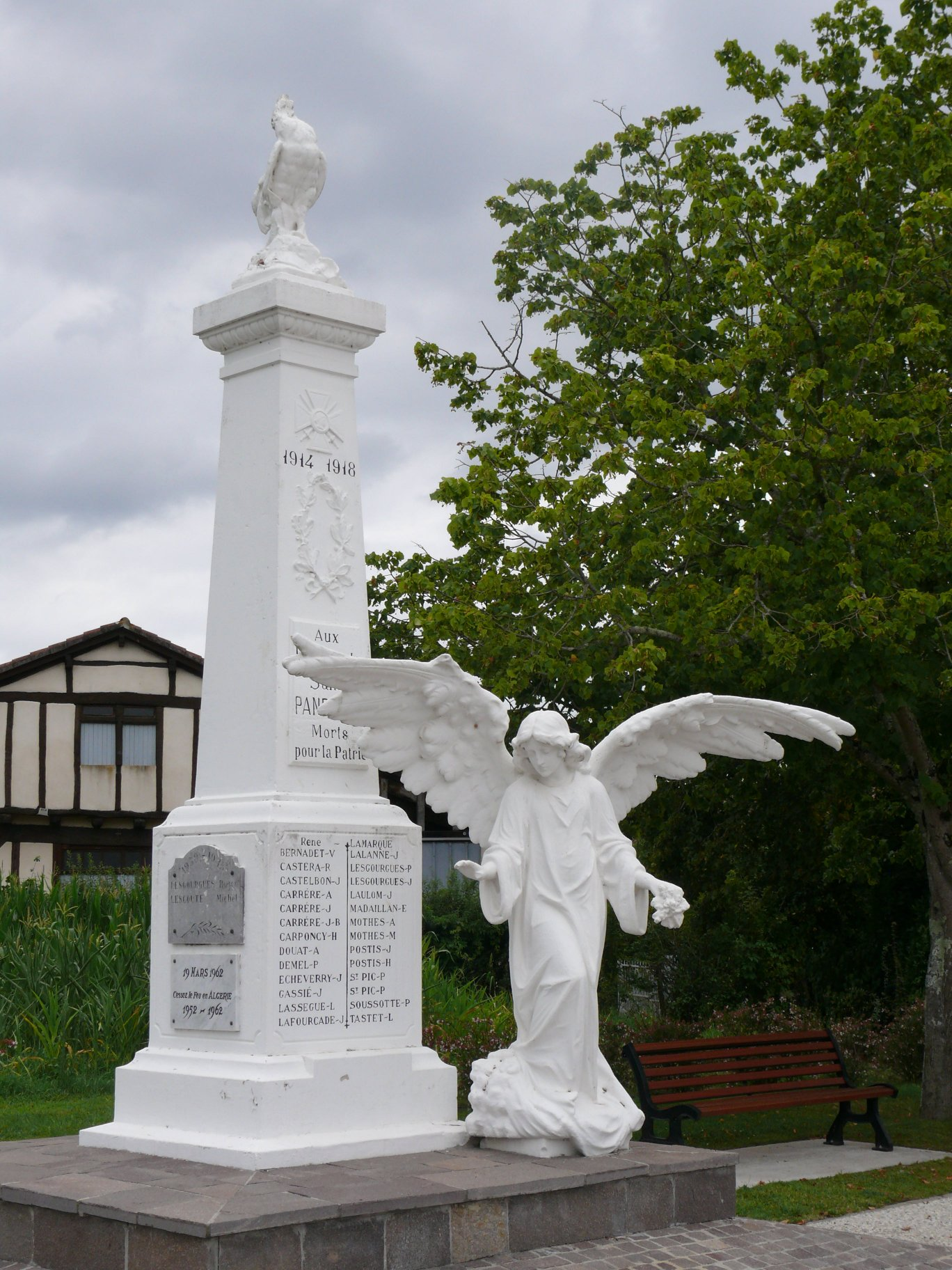 The memorial of Saint-Pandelon (Landes, Pyrénées-Atlantiques, France).